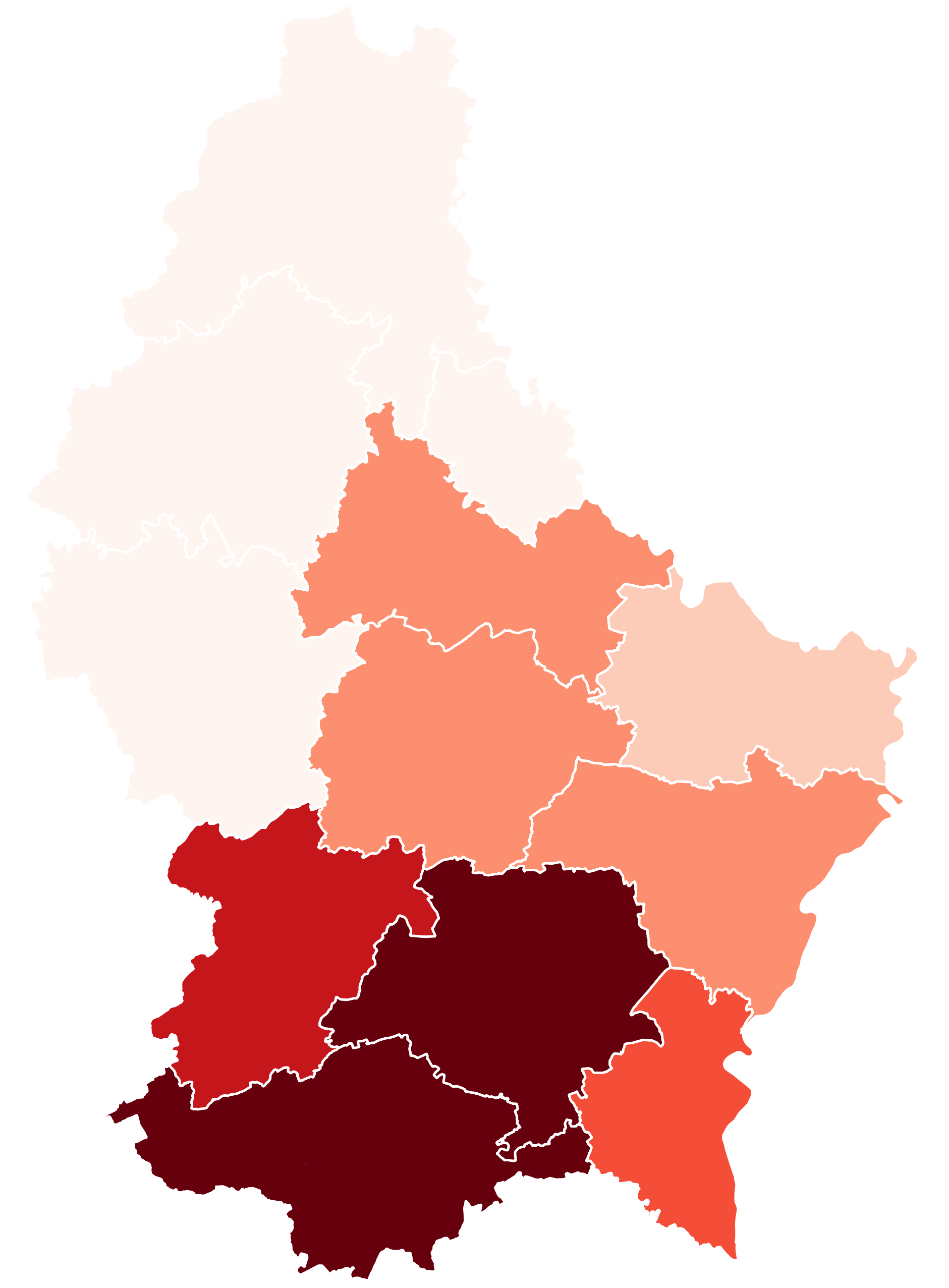 A map of cantons of Luxembourg after mergers of 2006-01-01, colour-coded by population density. Population density is denoted by seven different shades of red; in order of increasingly darker shades, the lower bounds (in people/km²) are: 0, 50, 75, 100, 125, 150, 200.